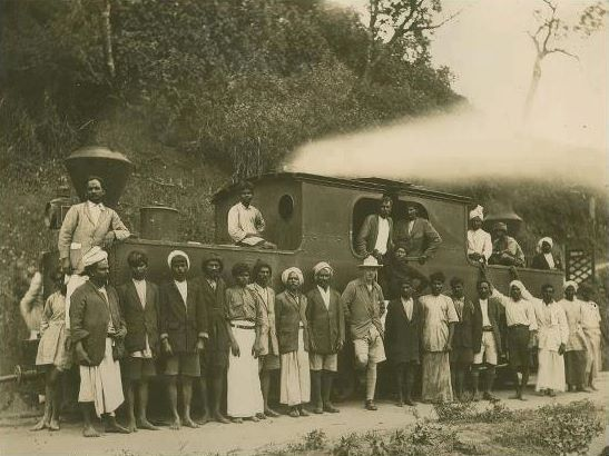 Kundala Valley Railway: High range light railway before flooding in 1924. G. S. Gilles, engineer at Munnar Blairgowrie Halt